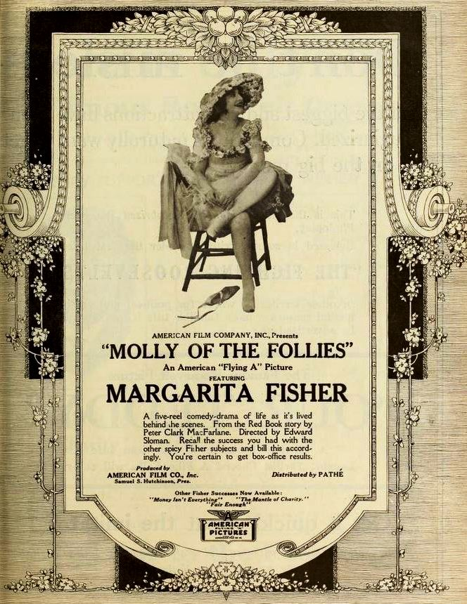 Ad for the American comedy film Molly of the Follies (1919) with Margarita Fischer, on page 859 of the February 15, 1919 Moving Picture World.